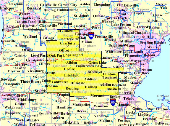 Map of Michigan's 7th congressional district for the en:106th United States Congress, illustrating boundaries prior to redistricting in 2002.